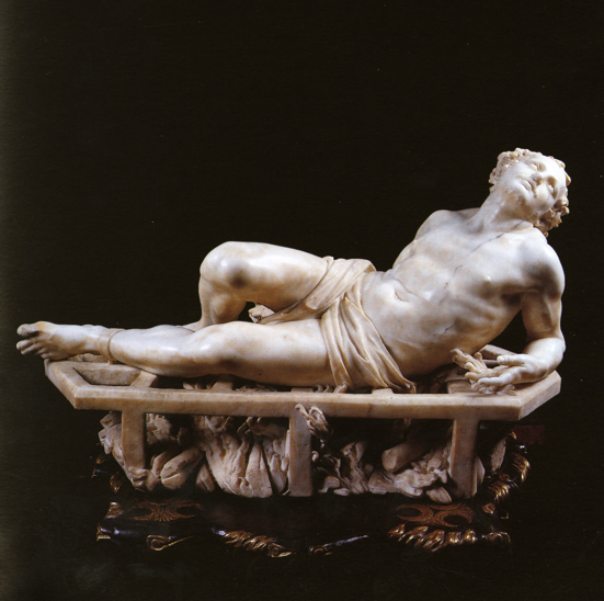 Martrydom of Saint Lawrence by Gian Lorenzo Bernini